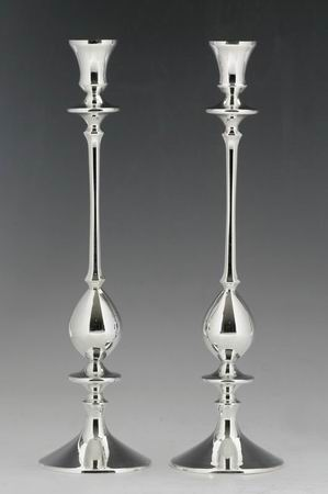 A pair of sterling silver candlesticks for use on Shabbos. These Shabbos Candlesticks were made by Hadad Brothers in Israel.